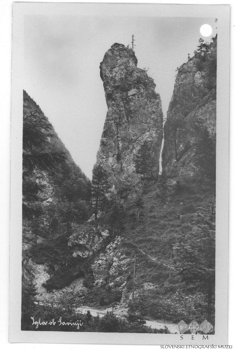 Postcard of Igla ob Savinji